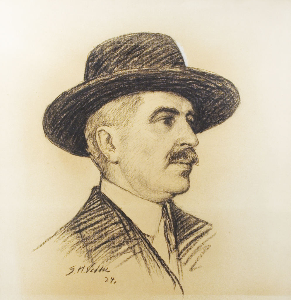 Drawing by Simon Harmon Vedder (1866–1937), made in 1924